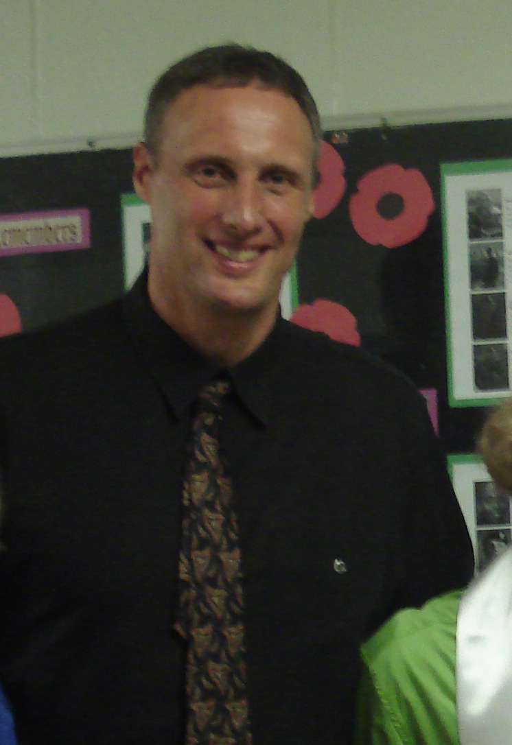 Mike Smrek in 2007 at a student graduation ceremony.